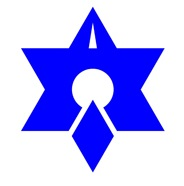 Takahama Fukui chapter